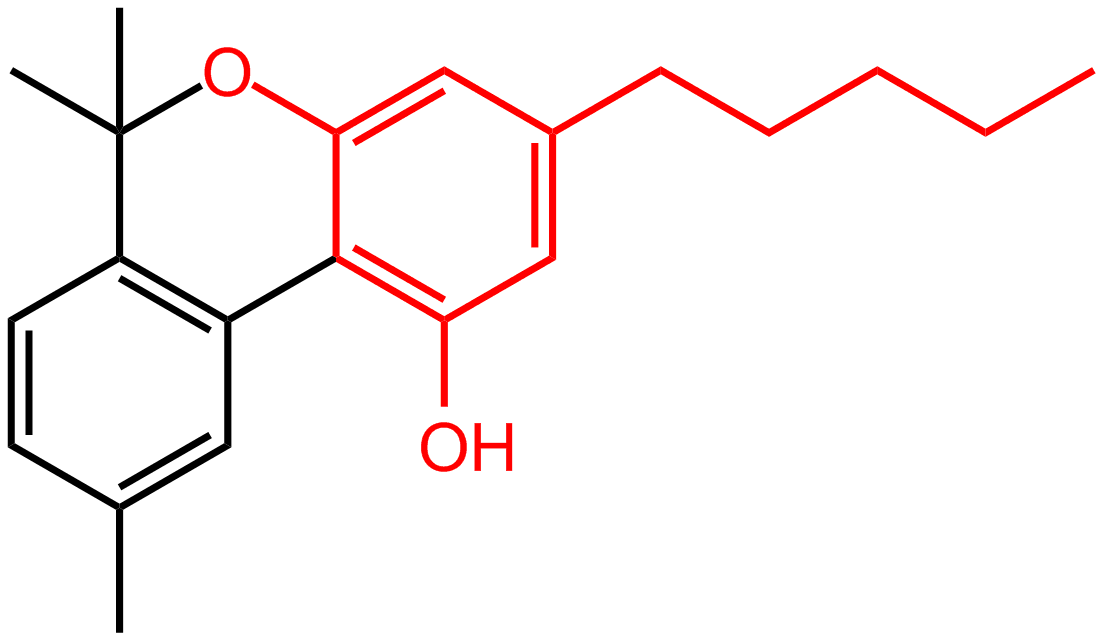 Cannabinol with olivetol skeleton highlighted